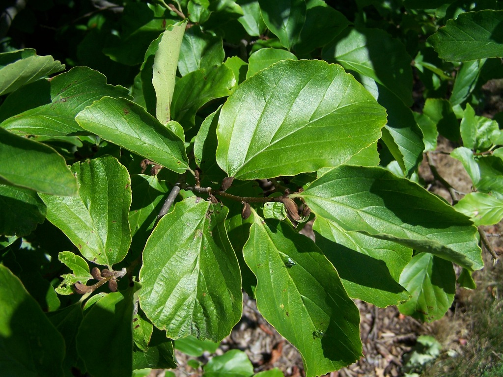 Persian Ironwood - Parrotia persica foliage. Morton Arboretum acc. 219-84-6